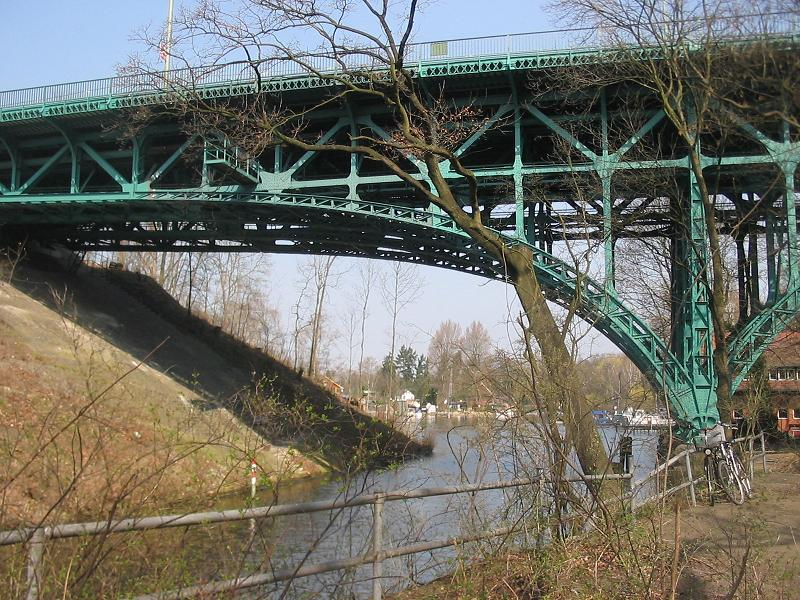 The Stößenseebrücke is a street-bridge of the Heerstraße over the lake Stößensee (river Havel back water) and the Havelchaussee in Berlin-Wilhelmstadt, Borough Spandau, at the border to Westend, Borough Charlottenburg-Wilmersdorf. It was built in 1908/1909 according to the plans of the construction engineer Karl Bernhard.